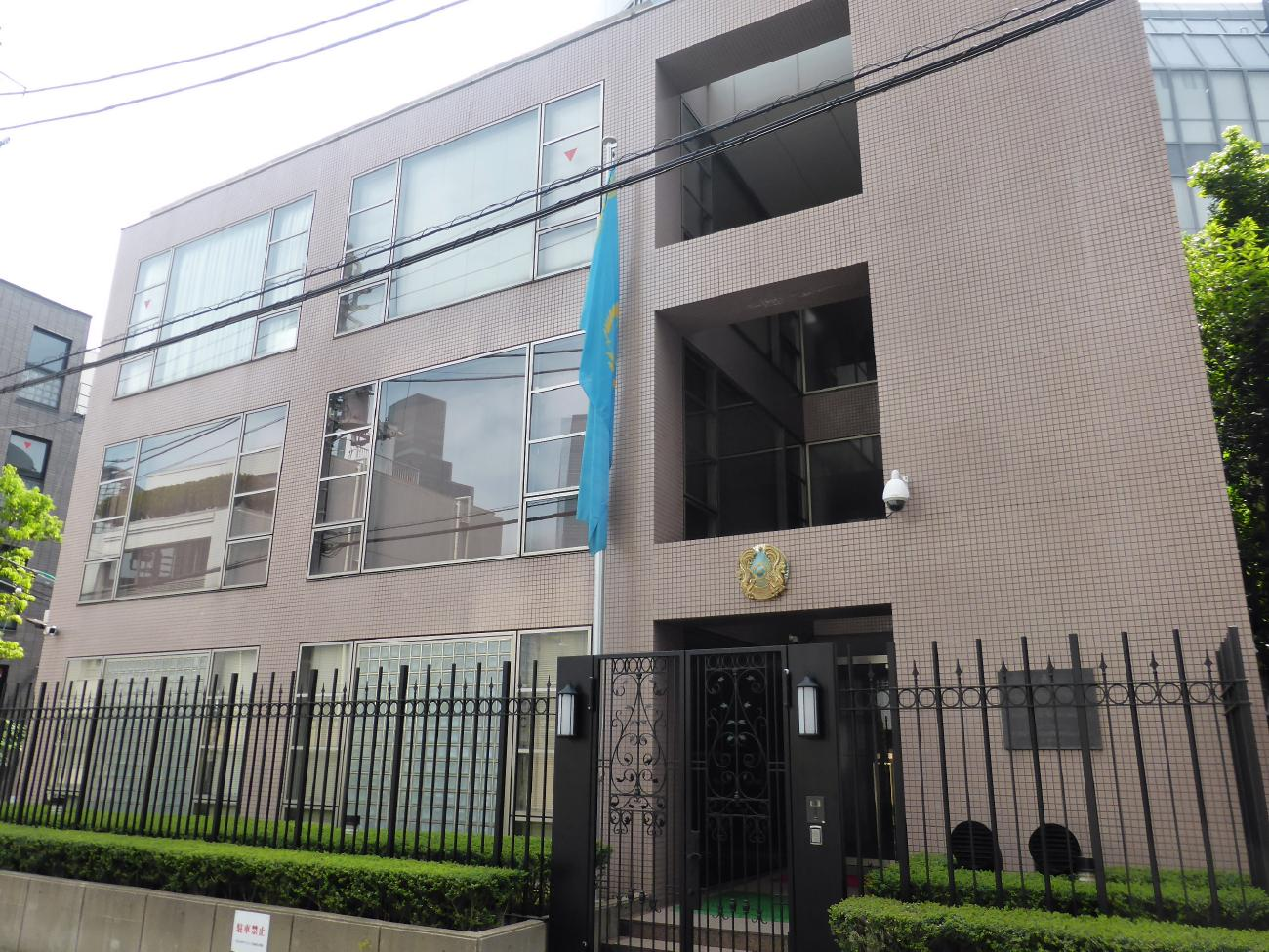 Exterior view of the front side of the Embassy of Kazakhstan in Tokyo, Japan.